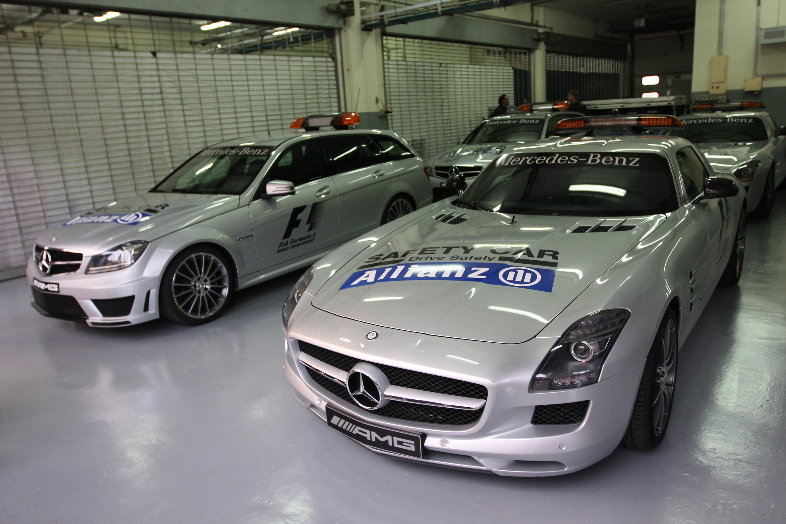 Formula One 2011 Rd.2 Malaysian GP: Safety car and medical car.